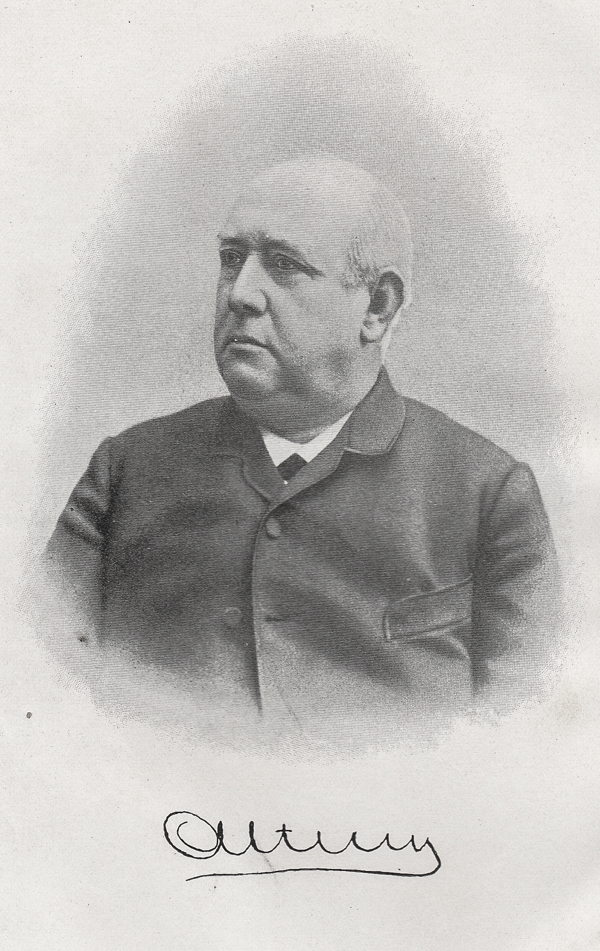 Bernard Altum (1824-1900), German zoologist, ornithologist and forestry scientist.